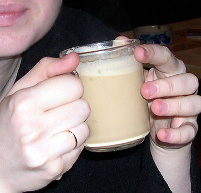 Cofe_whith_milk_or_'russish kafe'.